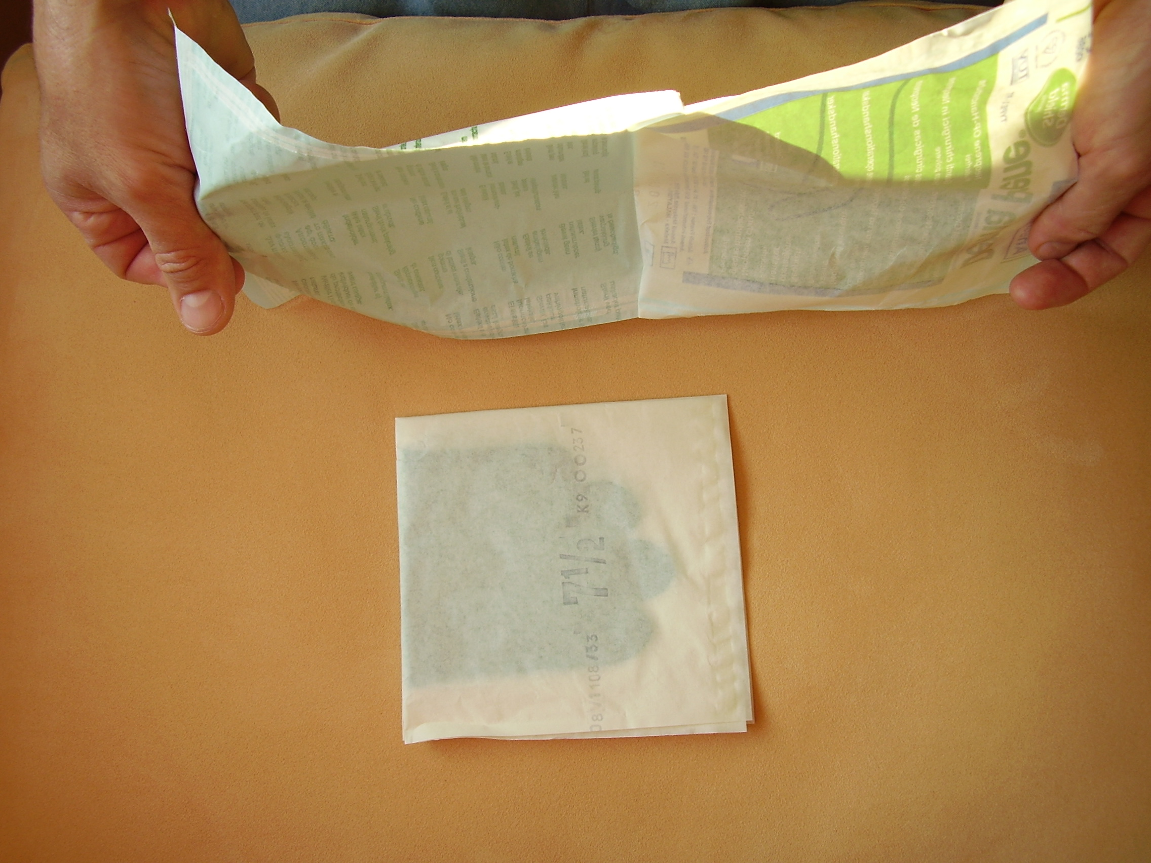 Disposable gloves; surgical gloves; chirurgische Handschuhe; steril; Latexhandschuhe